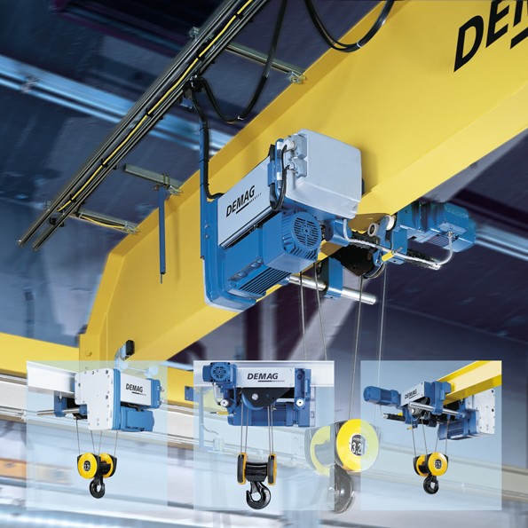 Bridge Crane with Wire Rope Hoist. (no original description)(part of trailing cables for power supply visible)